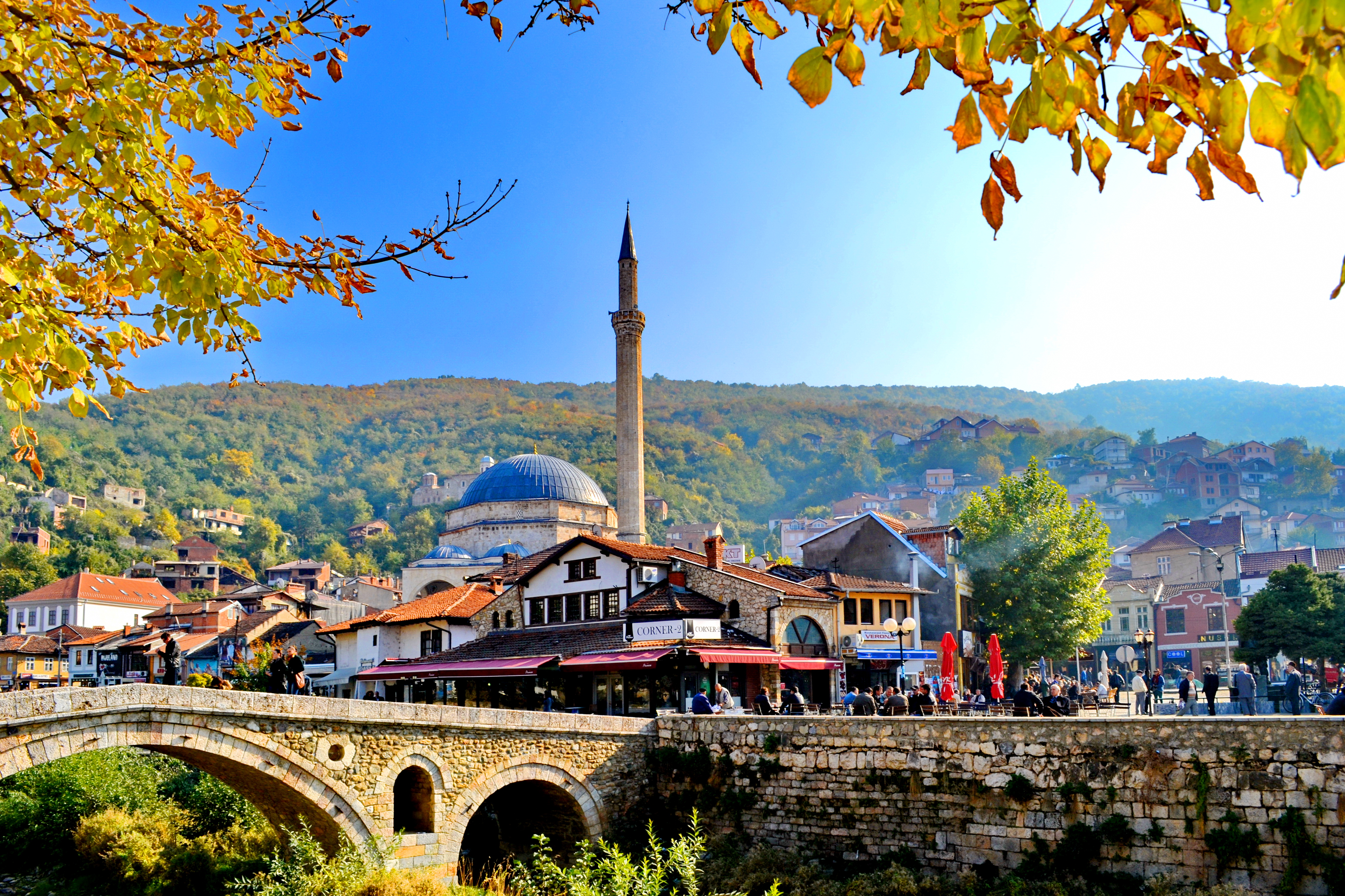 The Sinan Pasha Moscue